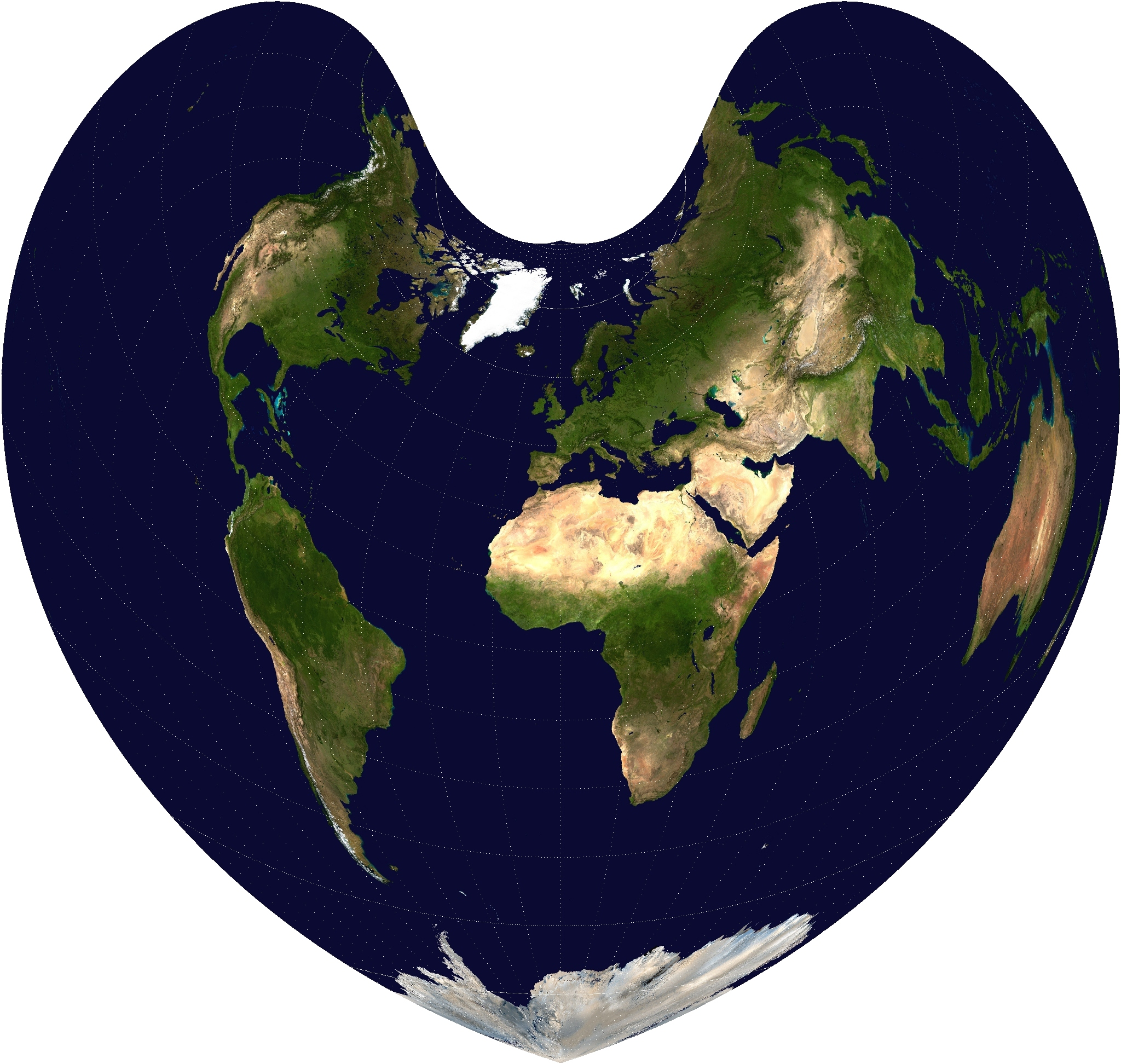 Bonne projection of the Earth, standard parallel is . Source image is from NASA's Earth Observatory "Blue Marble" series.